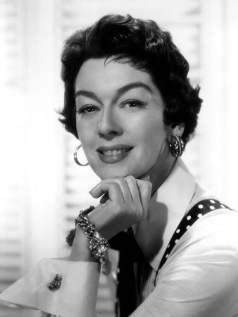 Promotional photograph of actor Rosalind Russell (1955)